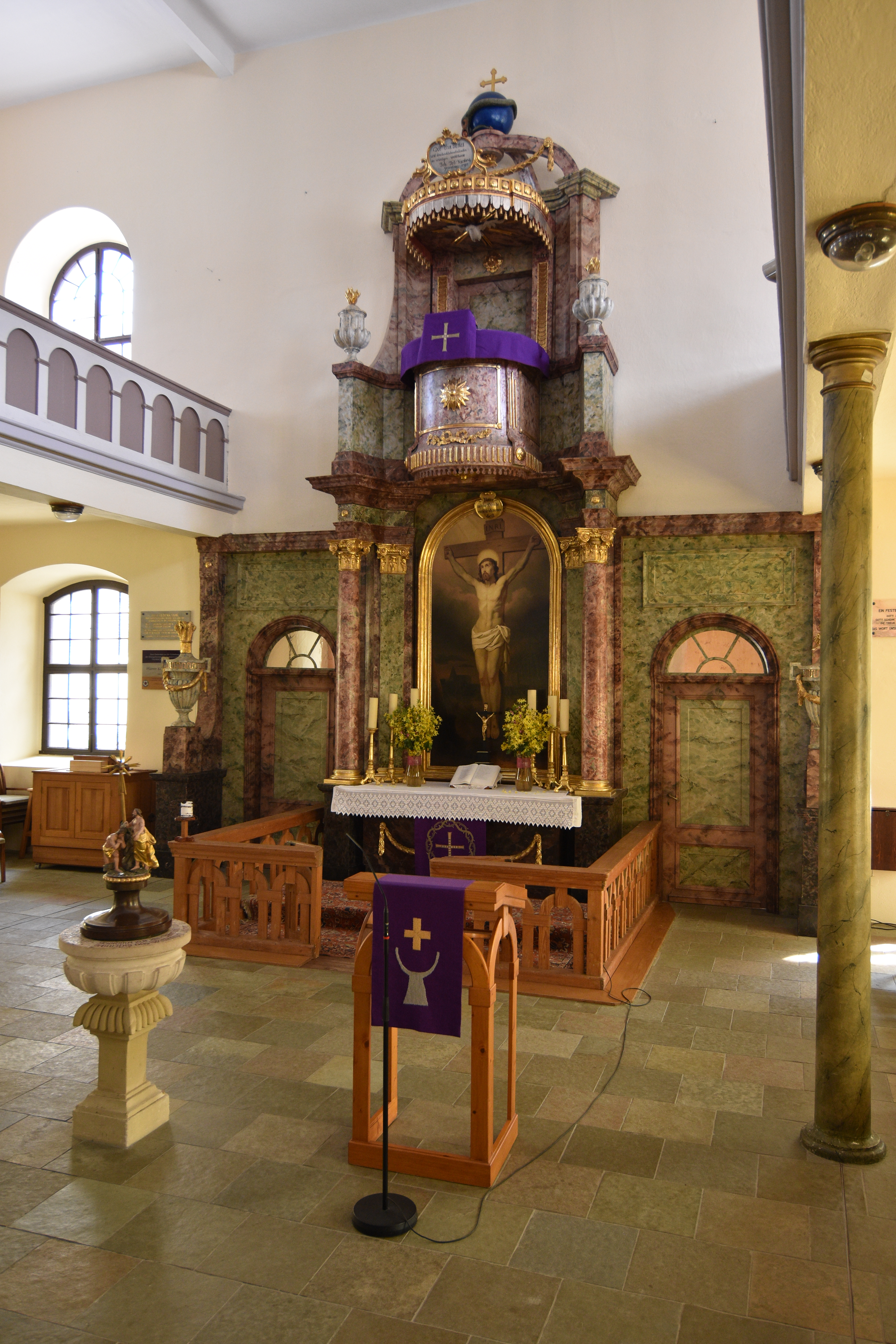 Protestant Church, Oberschützen - Interior